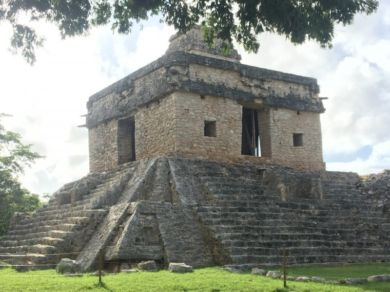 Dzibilchaltún Yucatan México the archway of the Temple of the 7 Doll